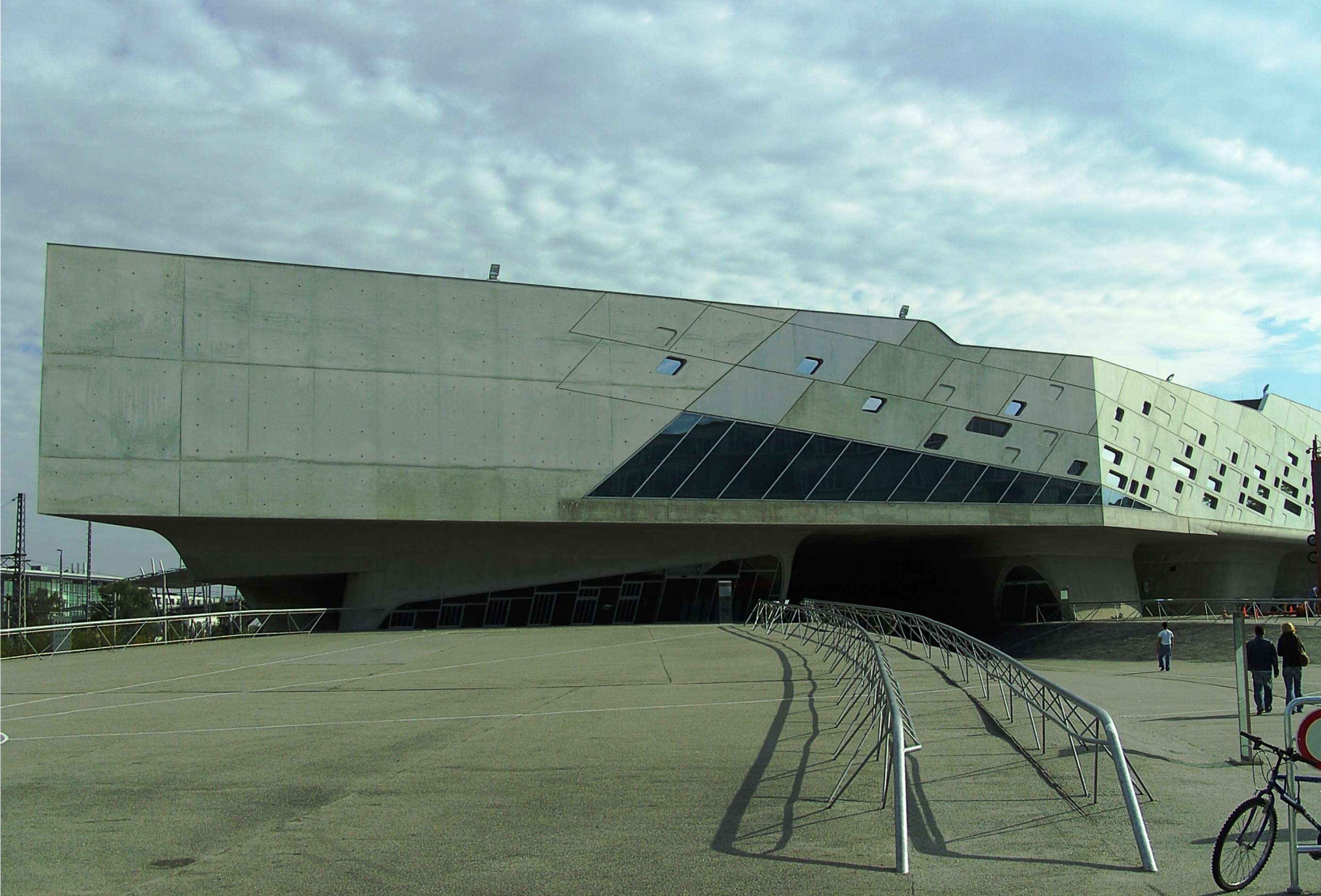 The phæno Science Center in Wolfsburg.